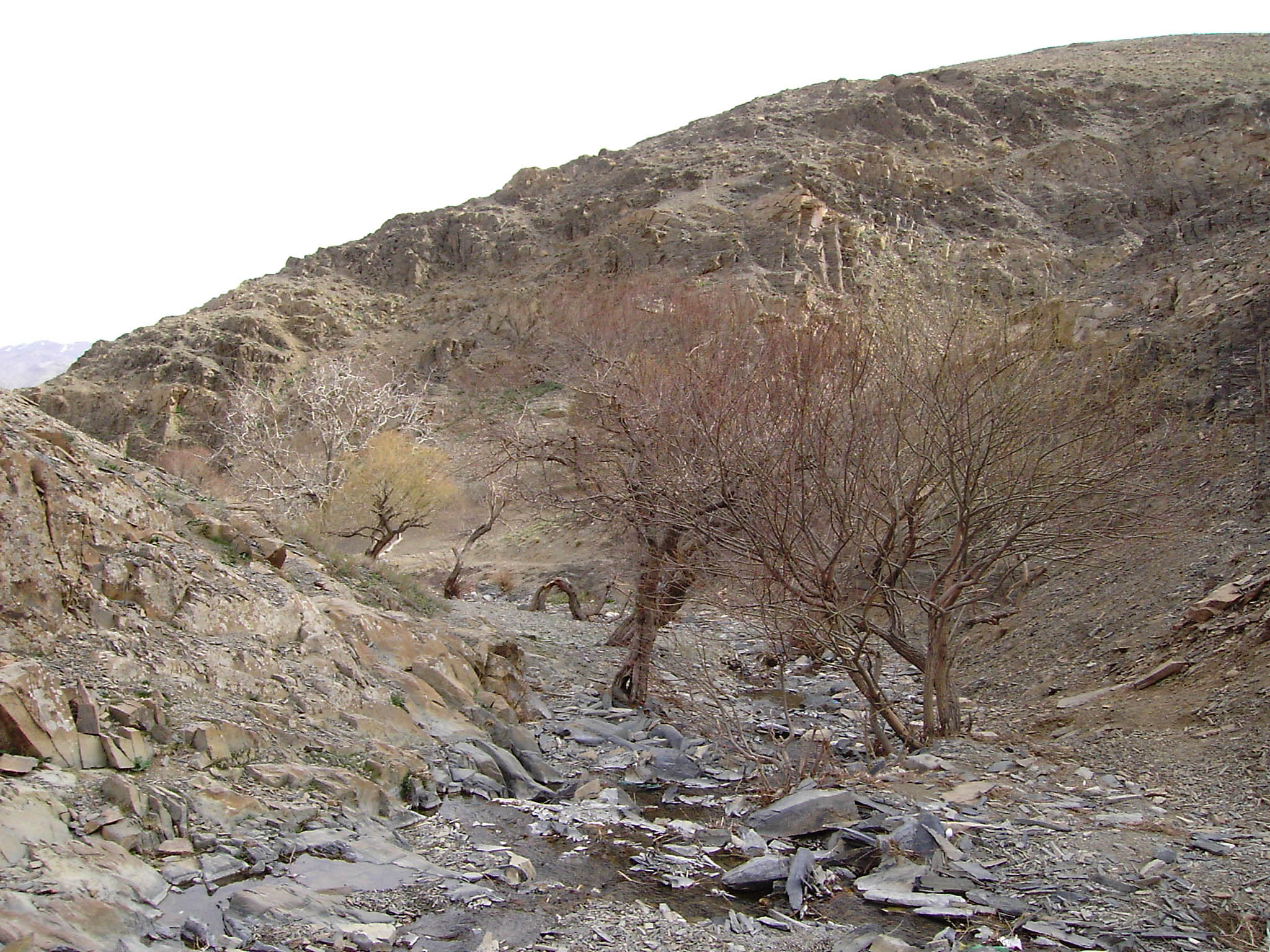 Modar valley is a river valley in west side of Arak